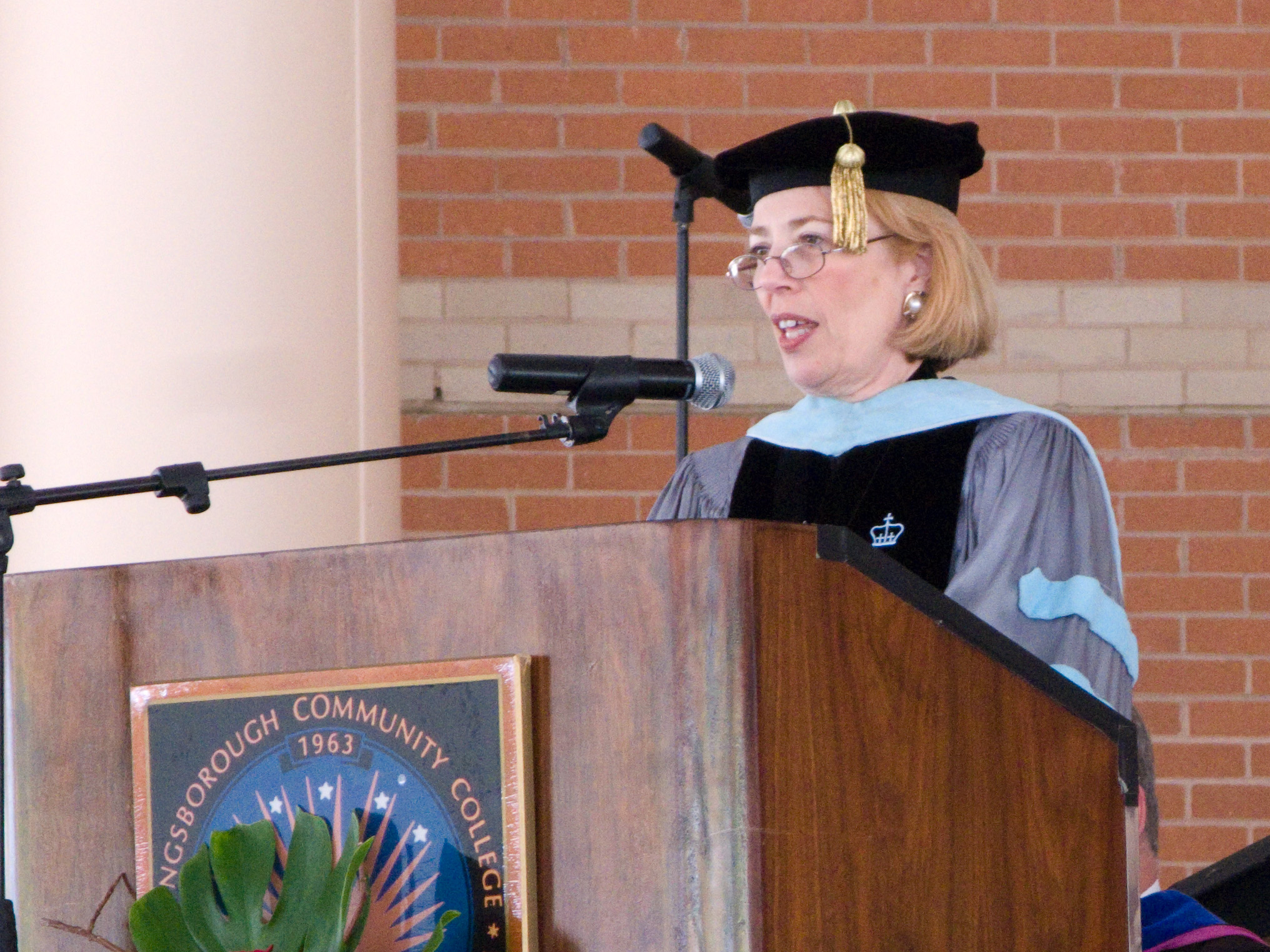 Regina Peruggi, President of Kingsborough College, delivers address at the college's June 2008 commencement ceremony.